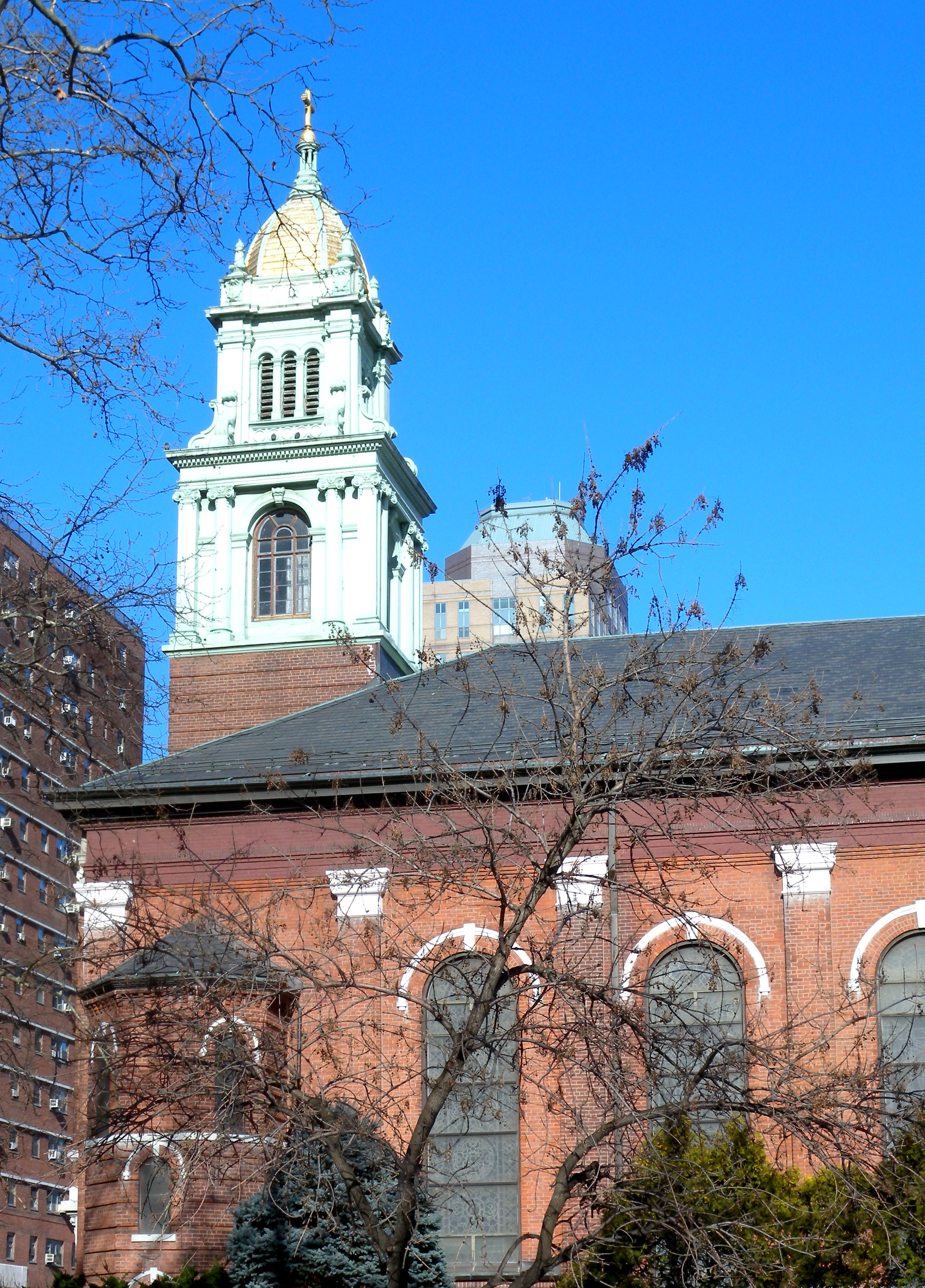 Looking northwest at St James Cathedral Basilica on a sunny midday.